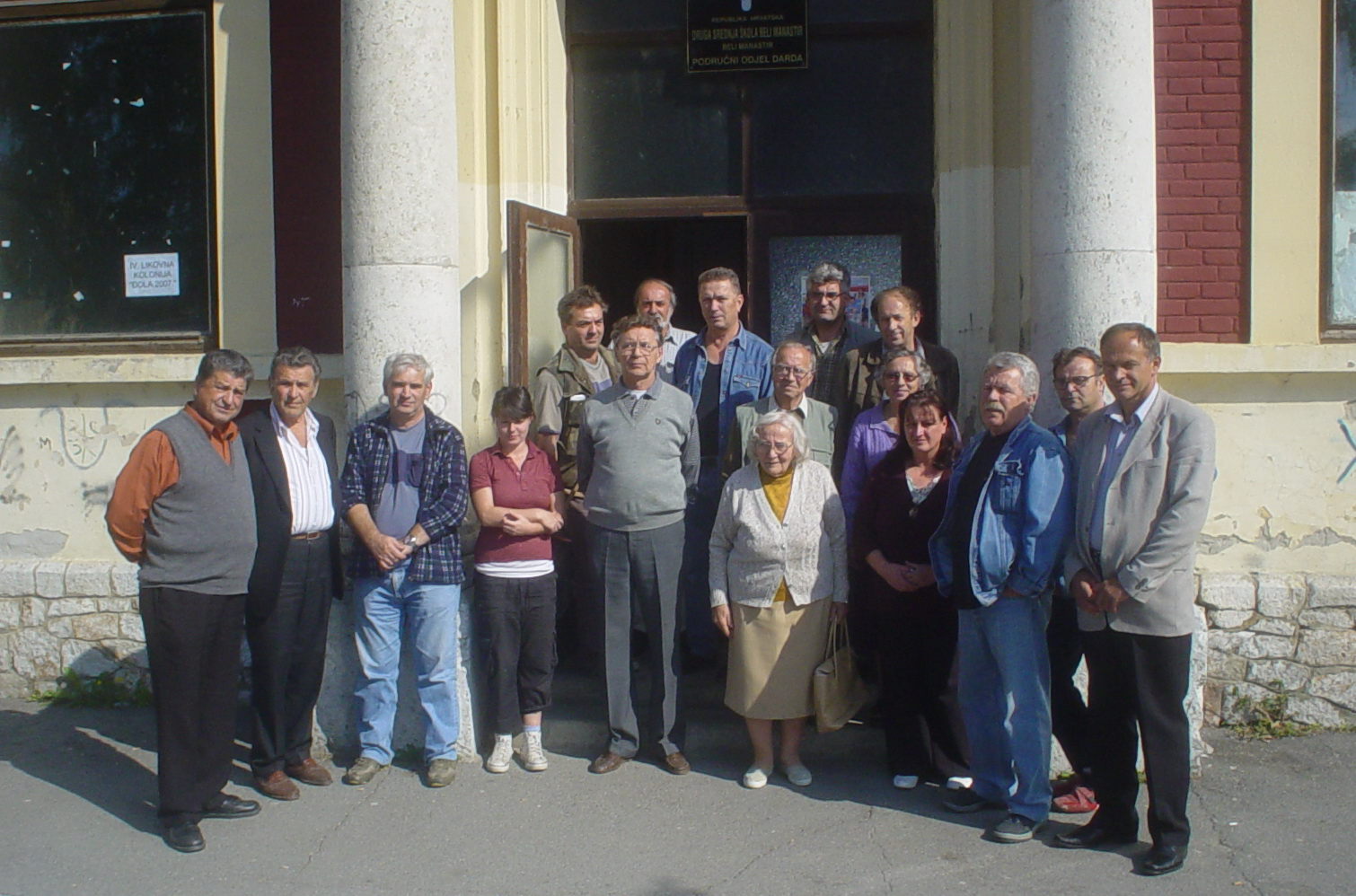 Đola 2007., art colony, Darda, 2007.